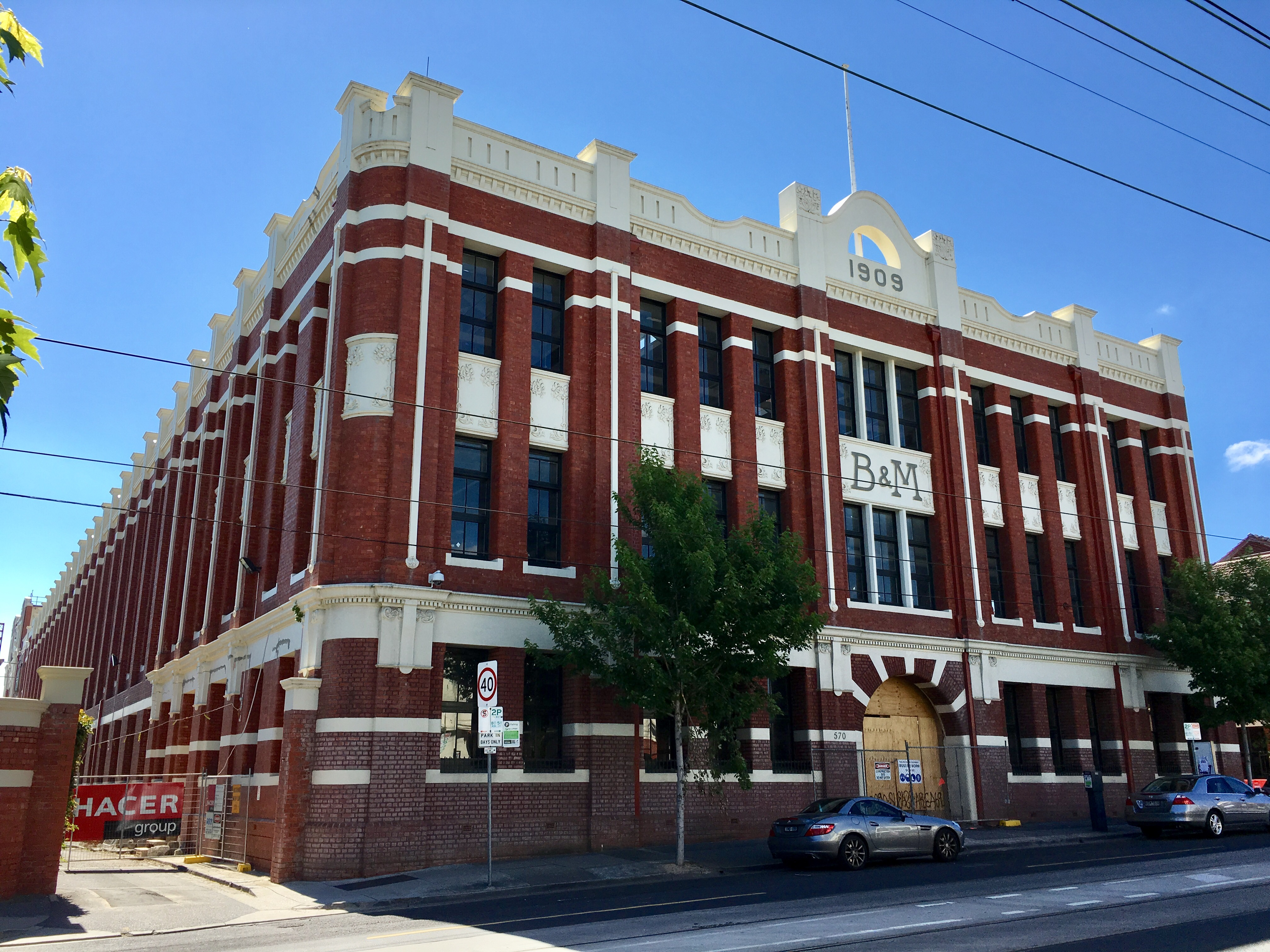 View of the Bryant & May match factory, showing the Church Street facade and south side. This part of the factory was built in 1909, and designed by William Pitt, architect.